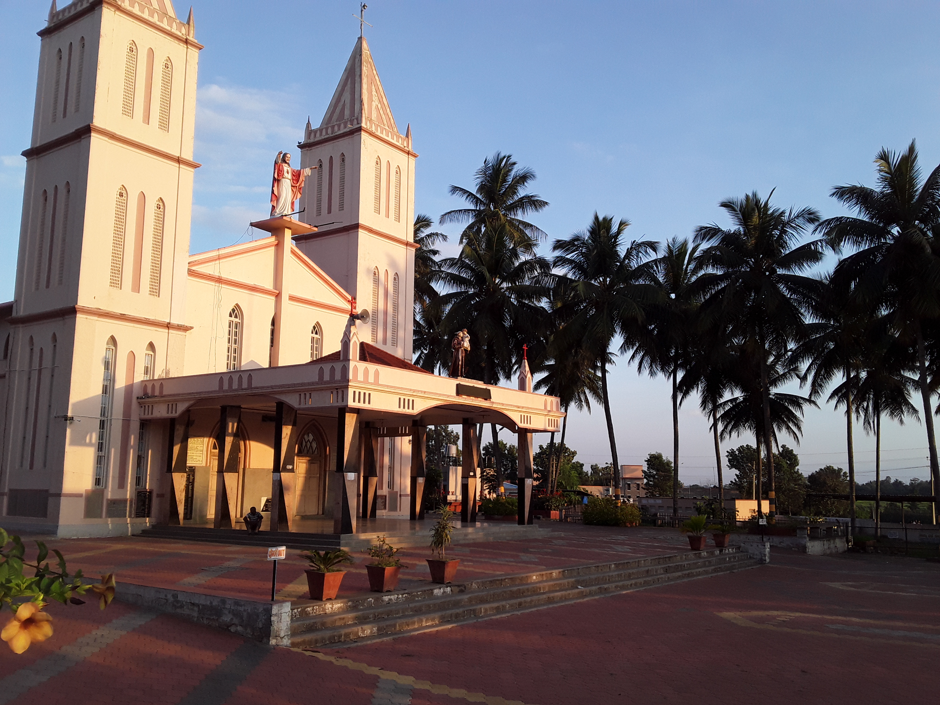 Karnataka, India.